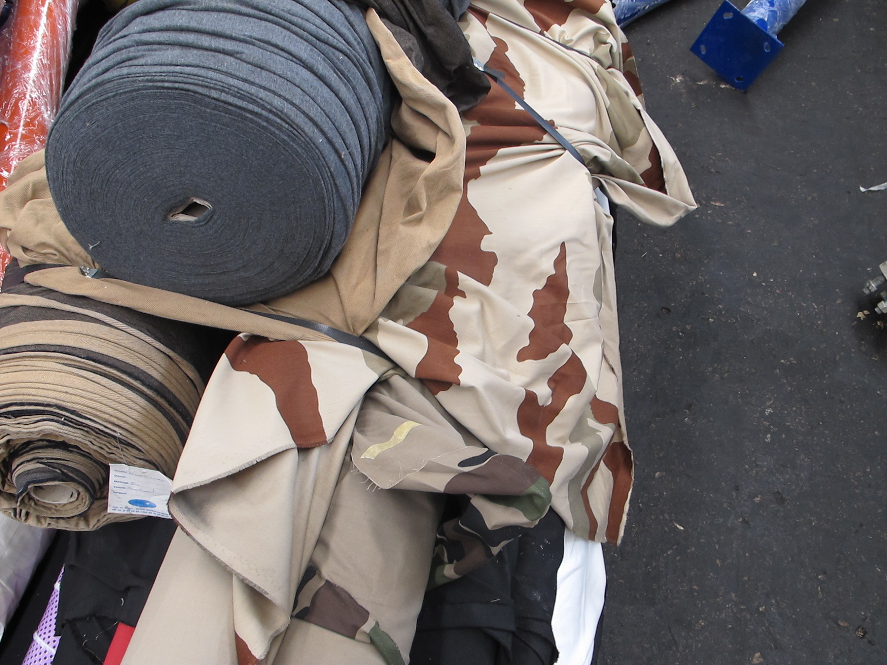 Military camouflage fabrics, set to be delivered to the Hammas terror regime, found on the Flotilla aid ships.